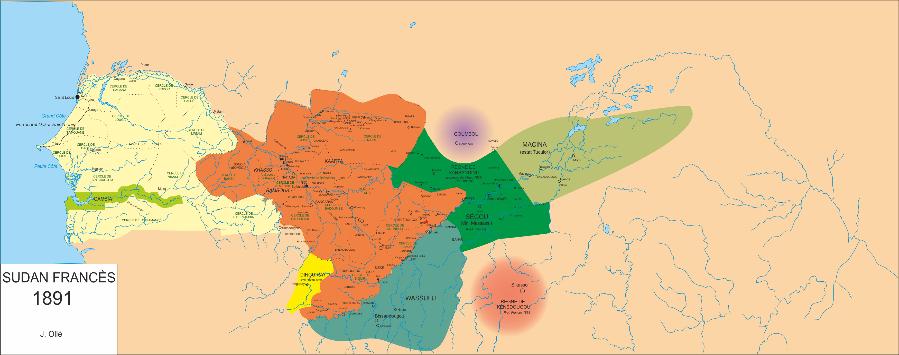 Senegal & Mali 1891, I